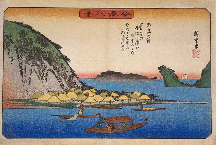 Kanazawahakkei Nojima no sekisyou